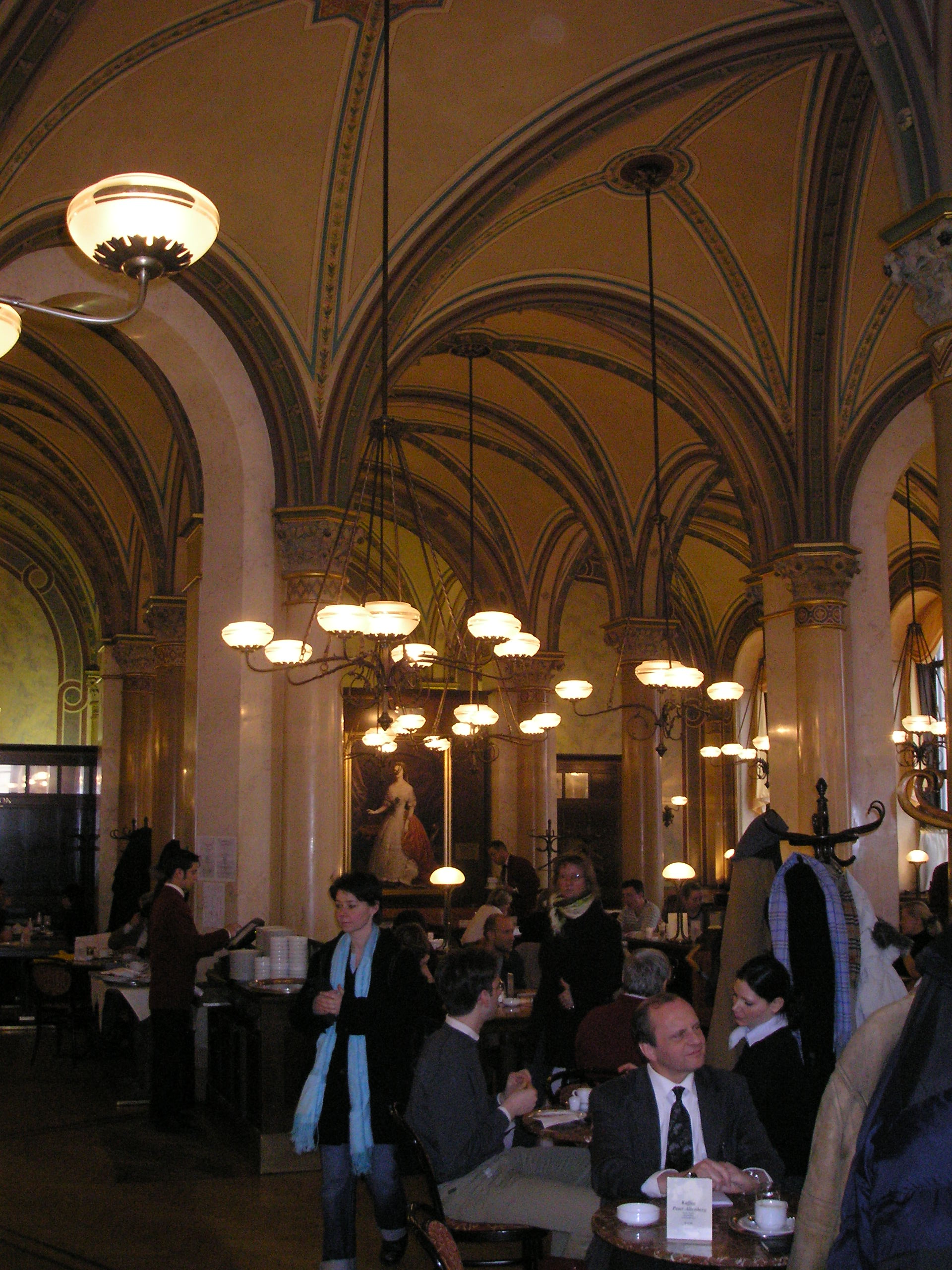 Description: Interior view of the Café Central in Vienna. Source: self-made, I release it into the public domain. Gryffindor 22:03, 23 March 2006 (UTC)